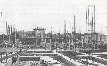 This was the situation during the works for the construction of the new seat of the Seminary.